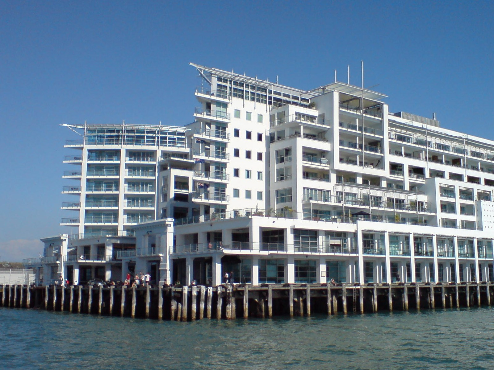 The Princes Wharf development in Auckland City, New Zealand. To the left in one prow is the Hilton Hotel.